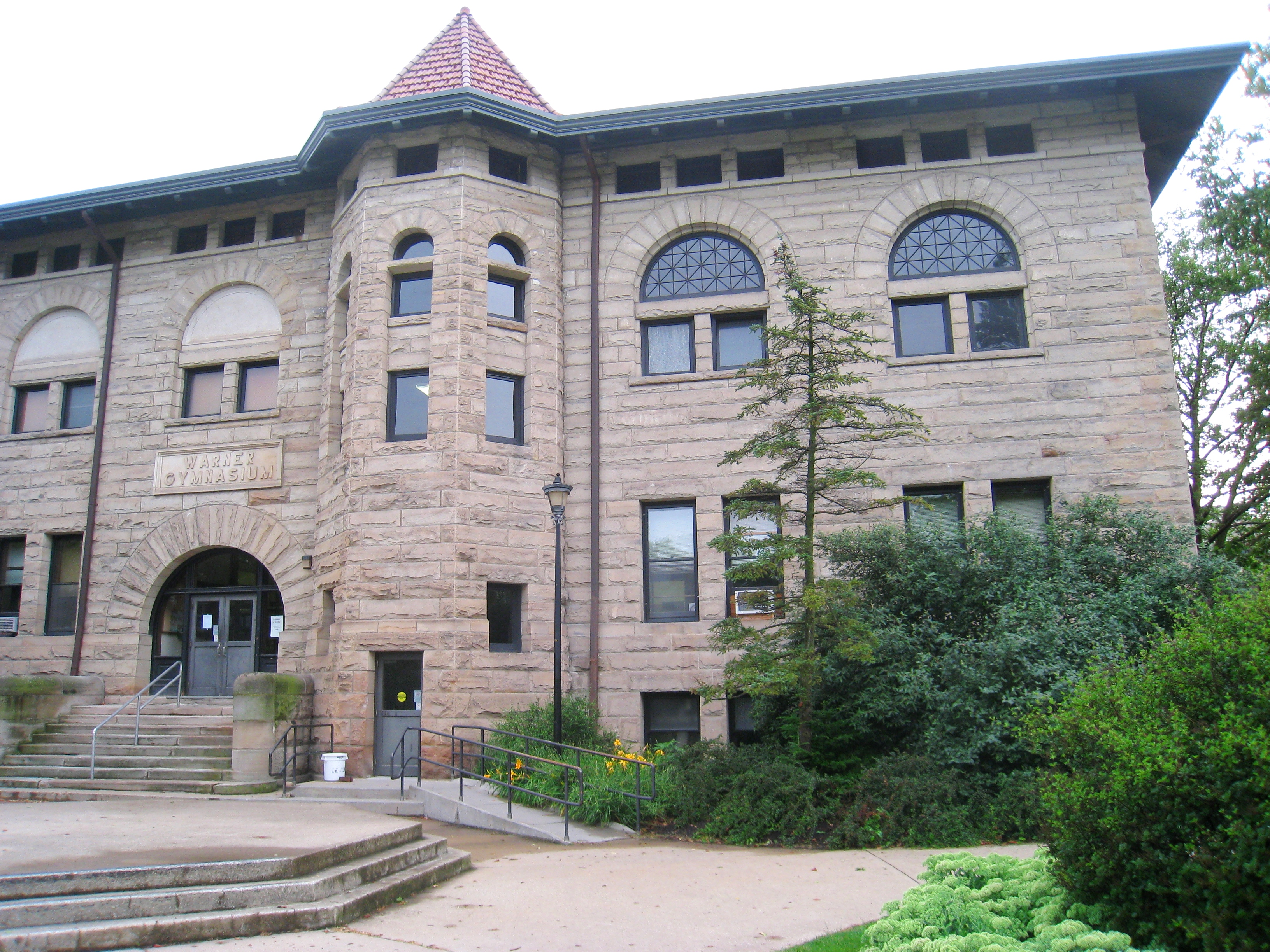 Warner Center, Oberlin College, Oberlin, Ohio, USA. Architect Normand Patton, Chicago, 1901. I took this photograph.